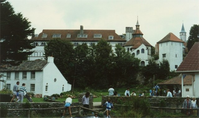 Cistercian Monastery, Caldey Island